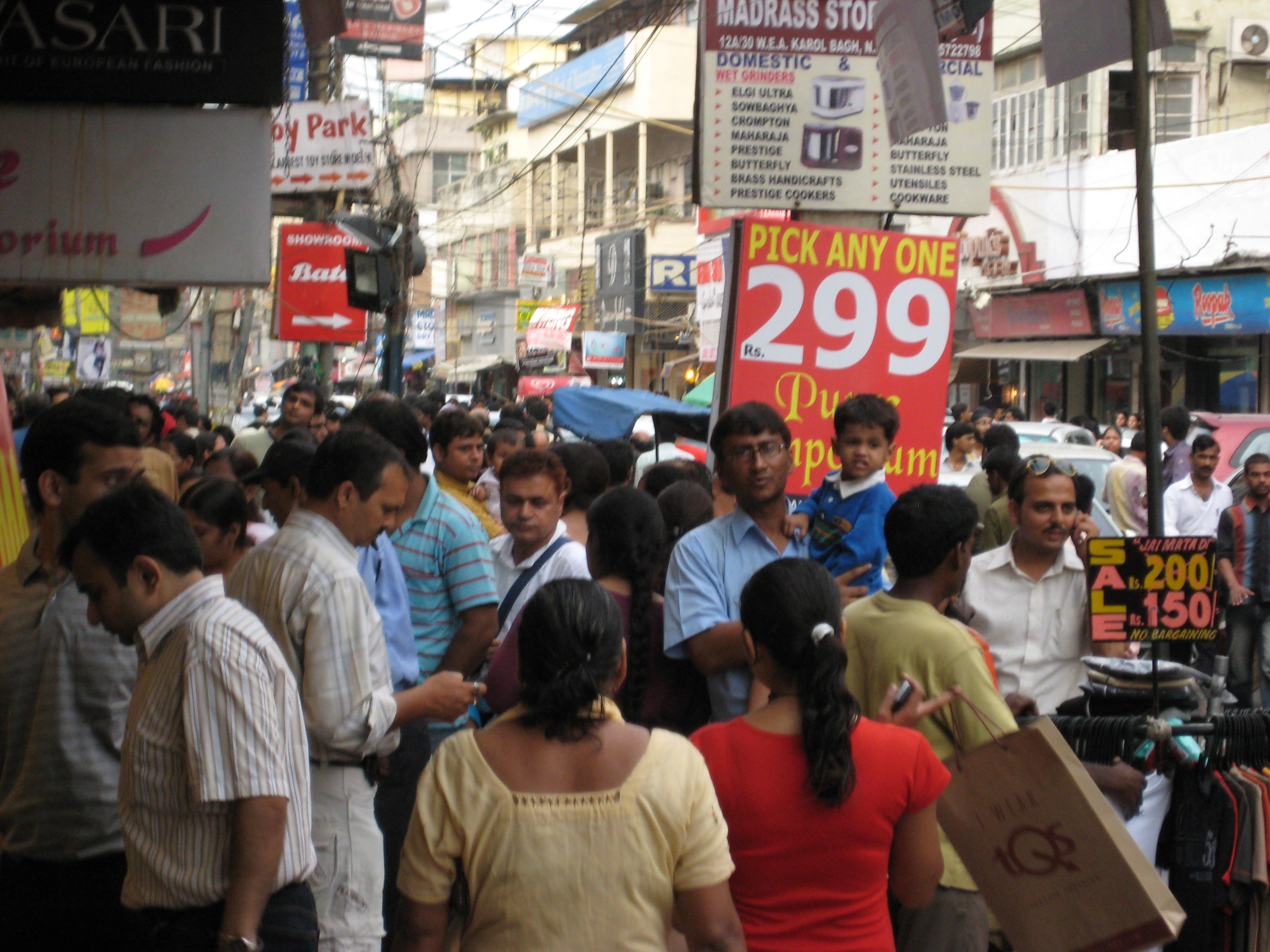 Karol Bagh